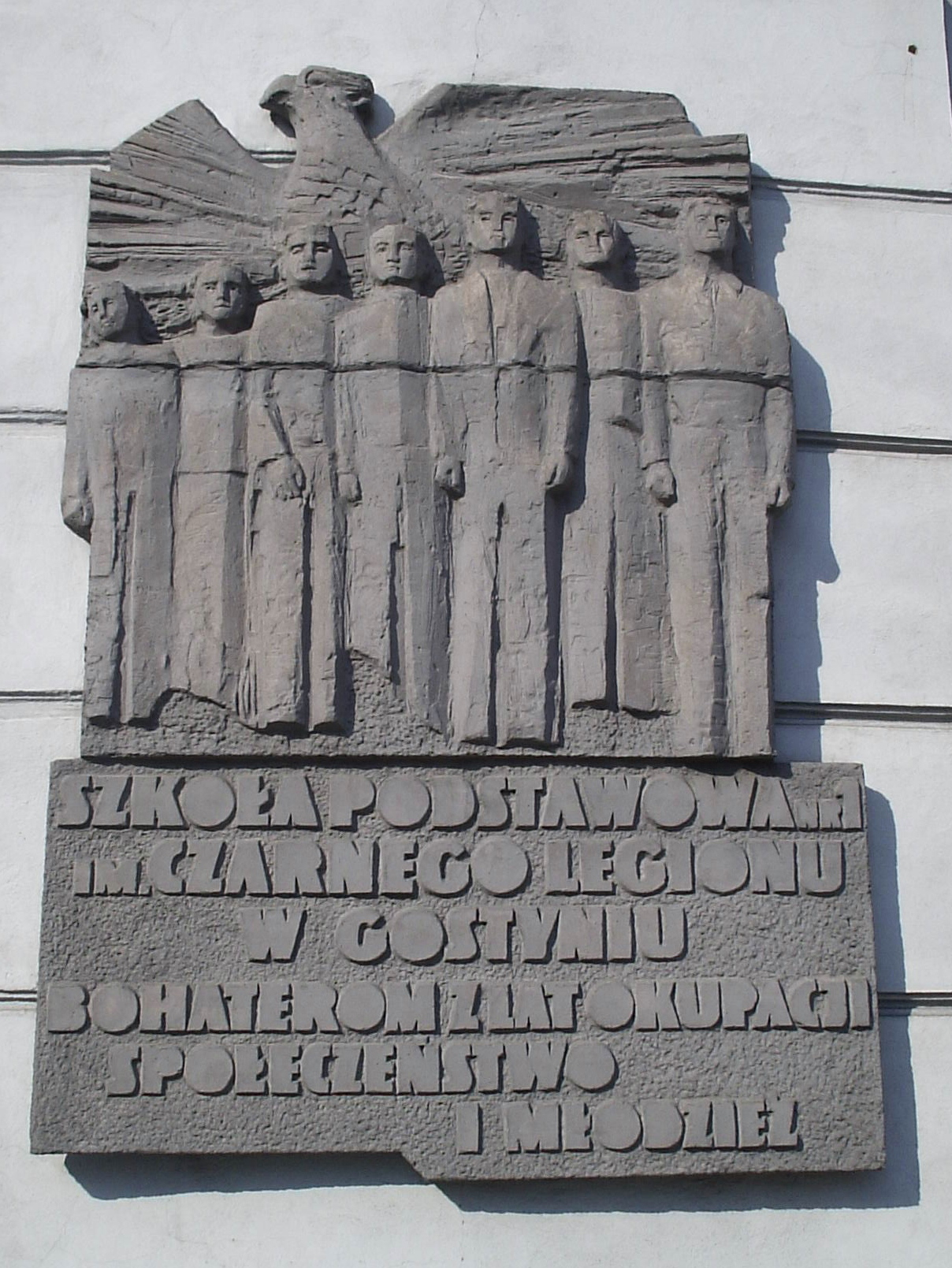 Czarny Legion, Poland